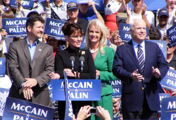 Left to right: Todd Palin, Sarah Palin, Cindy McCain, and John McCain. Rally in Fairfax, Virginia on September 10, 2008. Photo by Rachael Dickson.